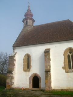 Church of Nógrádsáp.